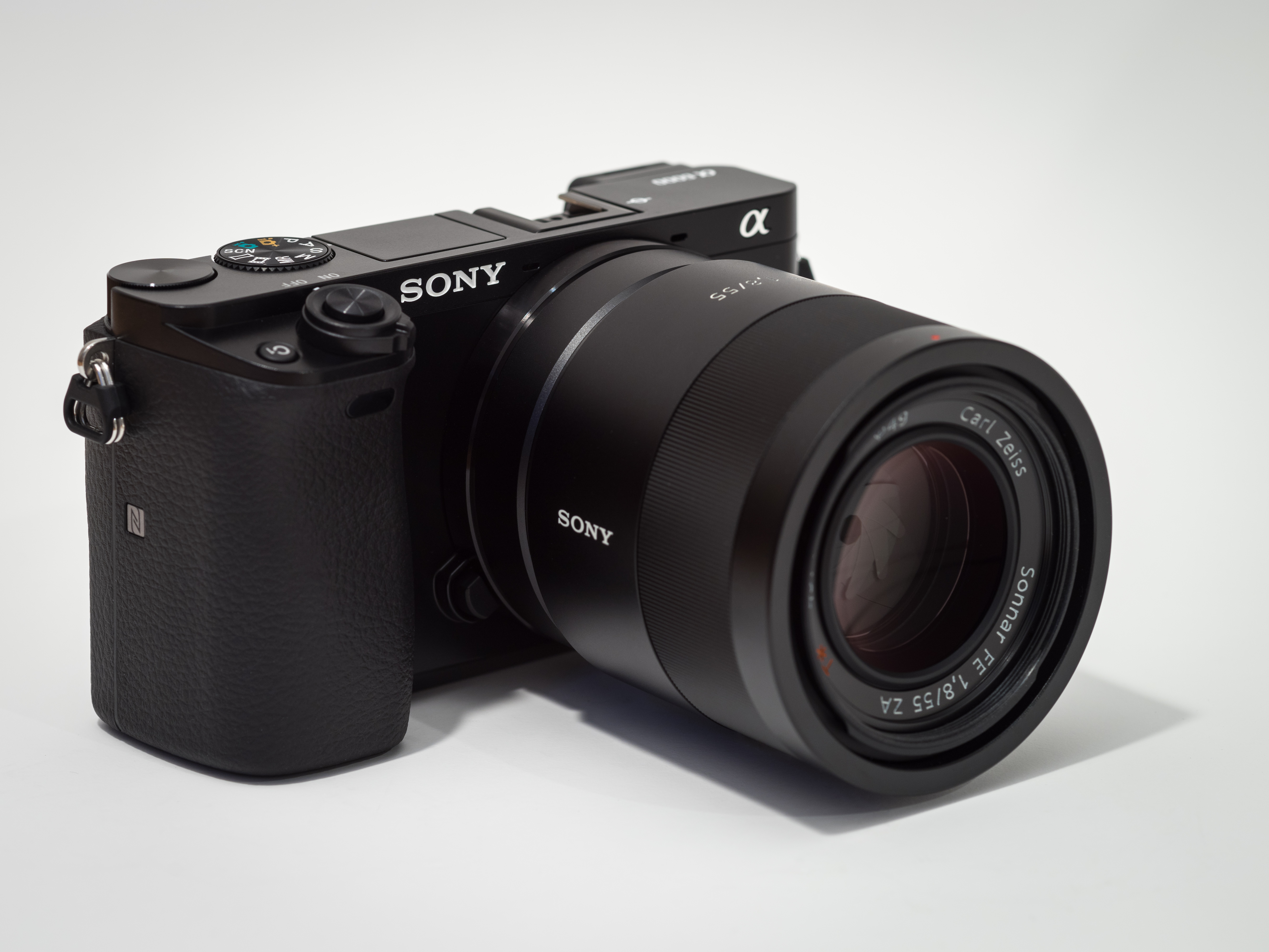 Sony Alpha ILCE-6000 APS-C-frame camera (mirrorless interchangeable-lens camera) with Zeiss lens Sonnar T* FE 1,8/55 ZA attached.